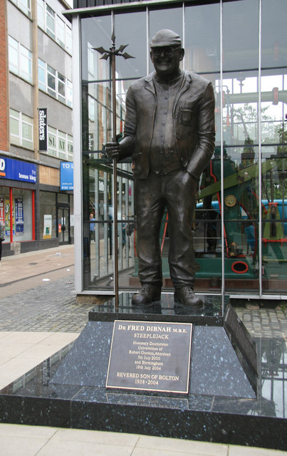 Fred Dibnah memorial A lasting memorial for Fred in his home town but not everybody is convinced that it is a true likeness. The glass case behind contains a locally built preserved steam engine.